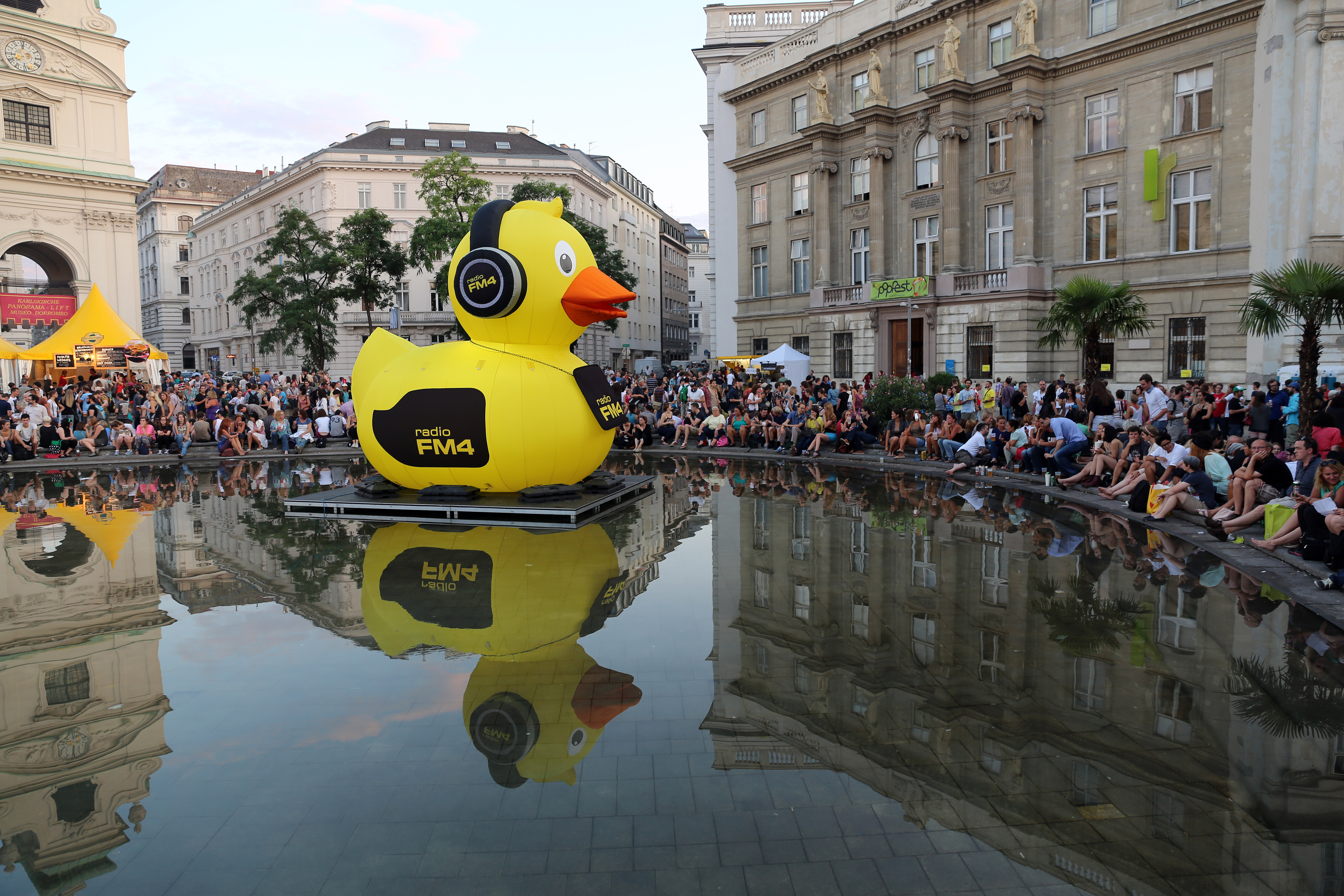 Pond at Karlsplatz with FM4 advertising duck, old building of the Vienna University of Technology to the right, during Popfest 2014 in Vienna, Austria.